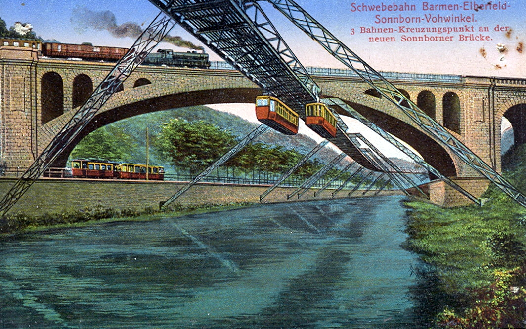 Postcard, undated (ca. 1914). Title: "Monorail Barmen-Elberfeld-Sonnborn-Vohwinkel. Crossing of 3 rails at the new bridge in Sonnborn."